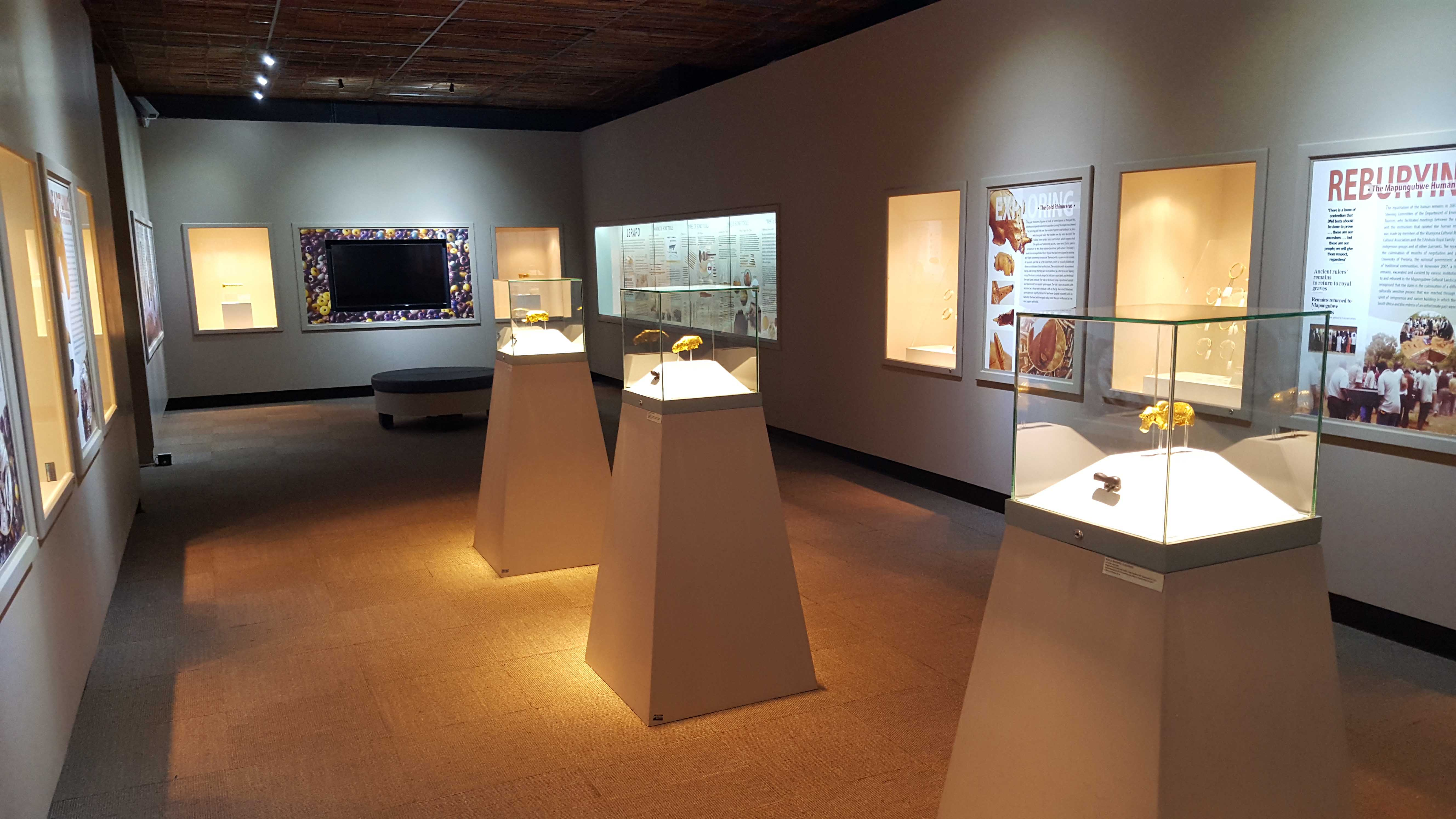 Mapungubwe gold rhino on display gold gallery at Mapungubwe Collection. University of Pretoria.